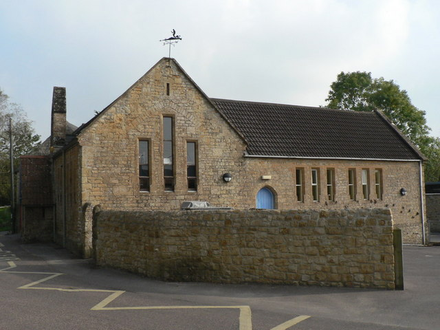 Loders: primary school A small Church of England primary school for ages 4-11.